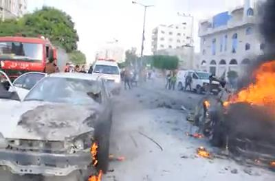 Israeli jets strike car, killing Palestinian in Gaza